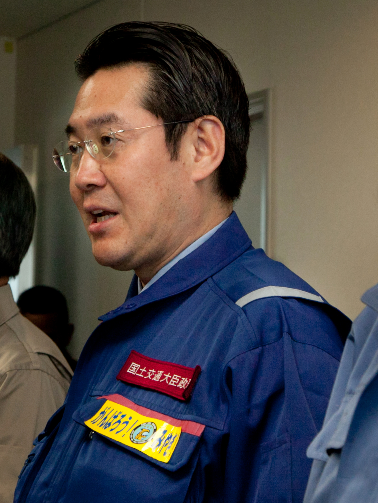 Koichiro Ichimura, the parliamentary secretary for the Ministry of Land, Infrastructure, and Transportation, speaks to U.S. Service members during an appreciation ceremony, while Suematsu Yoshinori, right, the vice minister of the cabinet office, and Miura Shuichi, left, the lieutenant governor of Miyagi prefecture, stand by at Sendai Airport, Japan, April 5, 2011. Operation Tomodachi was the name chosen by the Japanese government for the joint humanitarian assistance operation that took place in response to the magnitude 9.0 Tohoku earthquake and subsequent tsunami that struck northeastern Japan March 11, 2011. (U.S. Marine Corps photo by Cpl. Patricia D. Lockhart/Released) (excerpt from the original text)